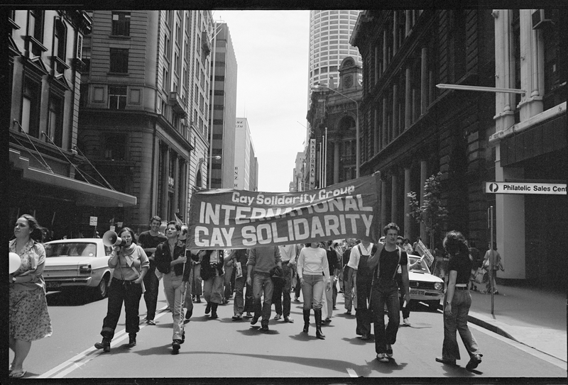 Gay Solidarity Group supporters march from Circular Quay to Hyde Park to protest the Briggs Initiative, which would effectively ban gay and lesbian teachers in the US state of California. Courtesy Tribune / SEARCH Foundation Call number: ON 160/Item 0385 Digital ID: FL4369488 Format: negative Find more detailed information about this photograph: .au/Details/archive/110369632 Search for more great images in the State Library's collections: .au/home From the collection of the State Library of New South Wales